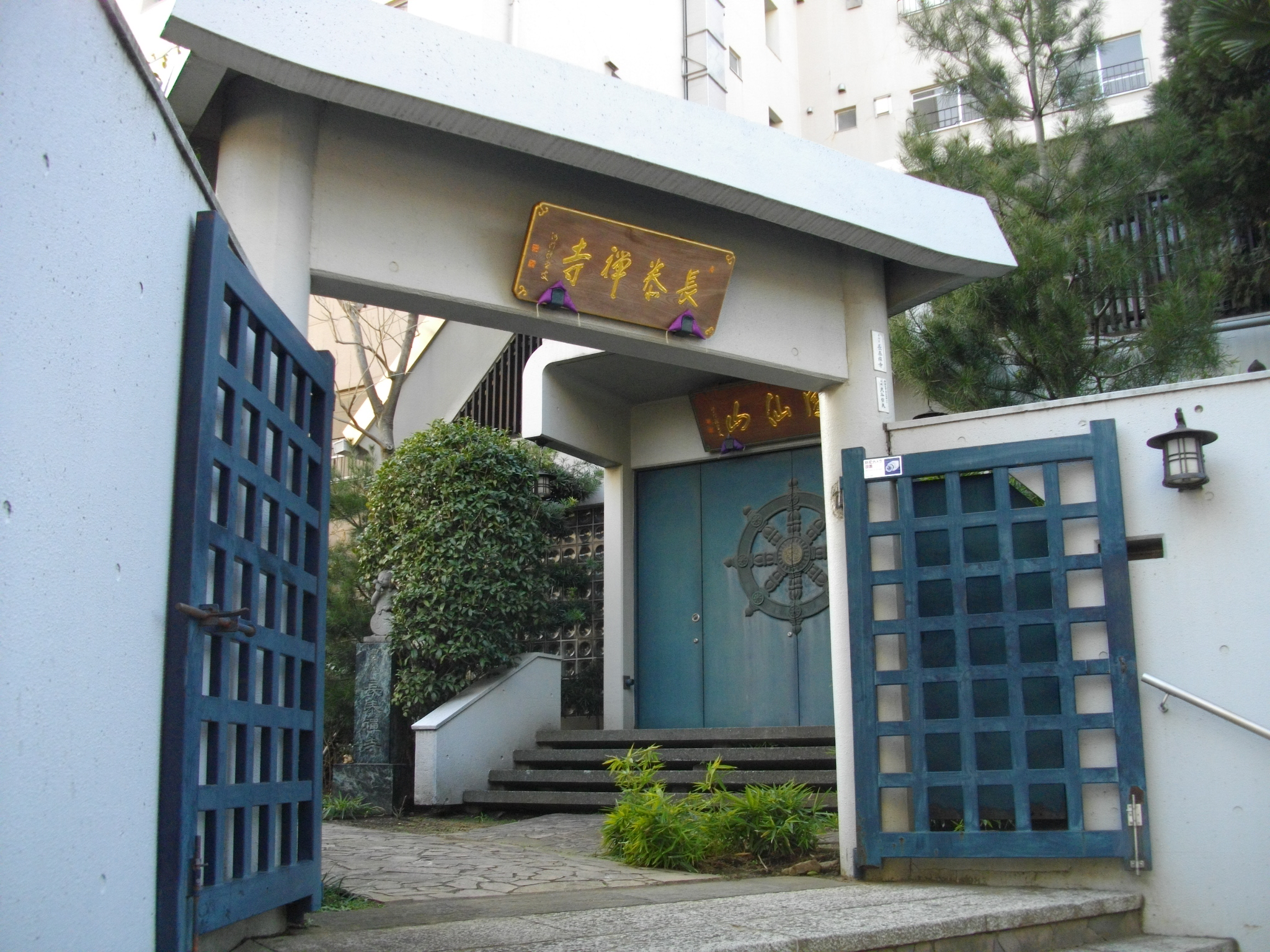 Chotai-ji (Shinjuku)